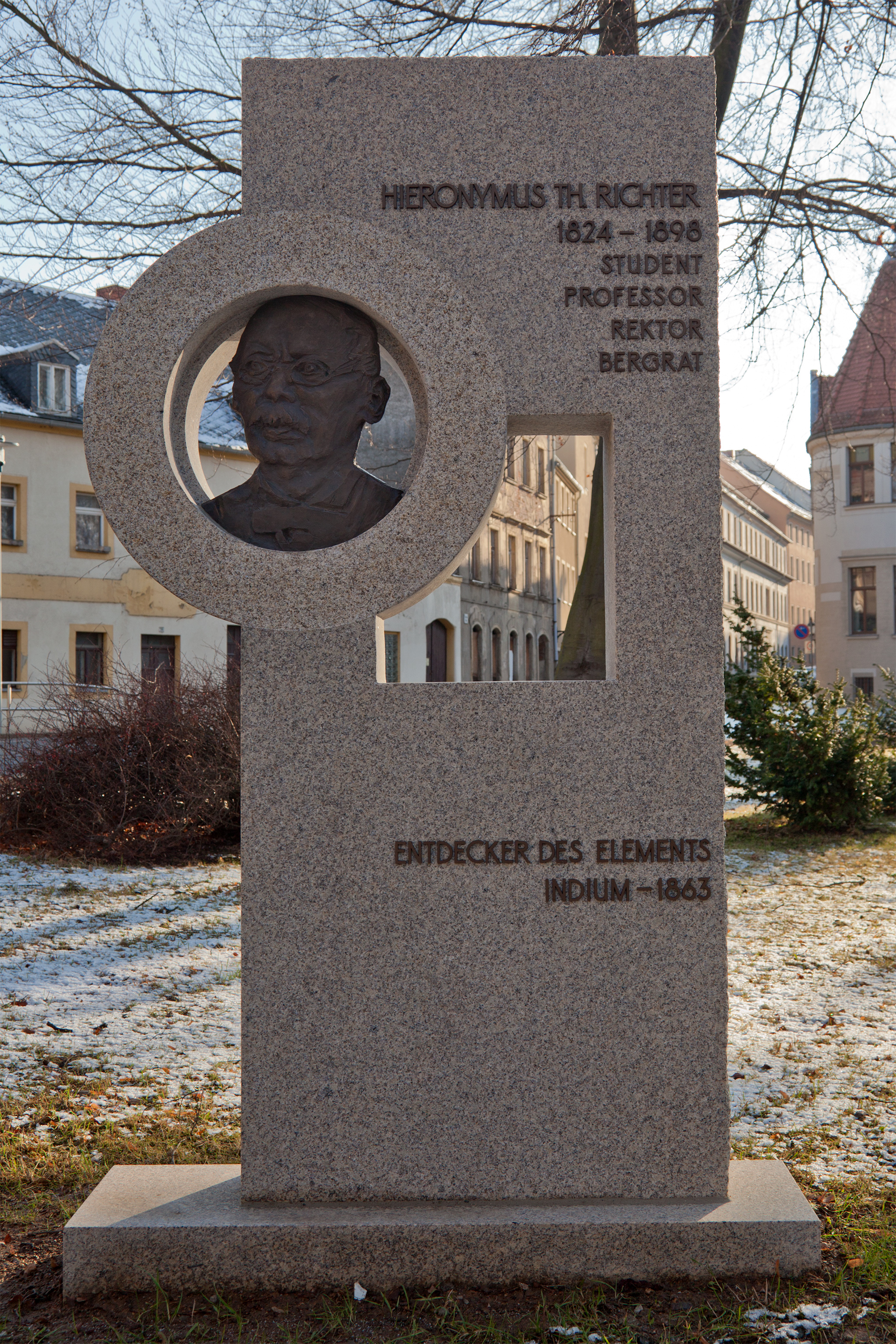 Monument to Theodor Richter in Freiberg, Saxony